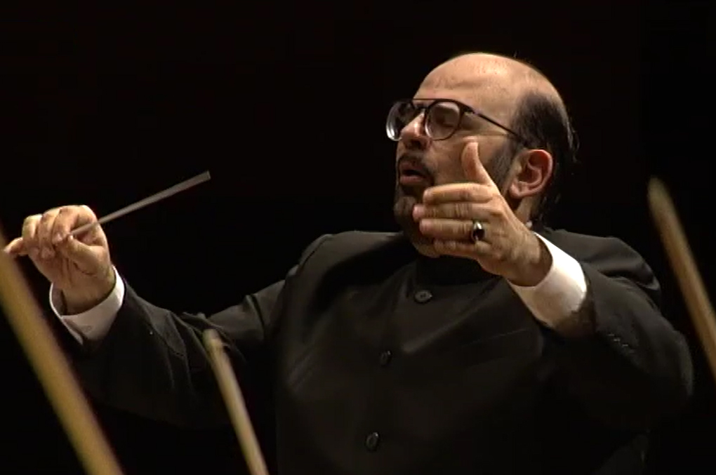 Taken from public performance in 2018 at Athens Concert Hall